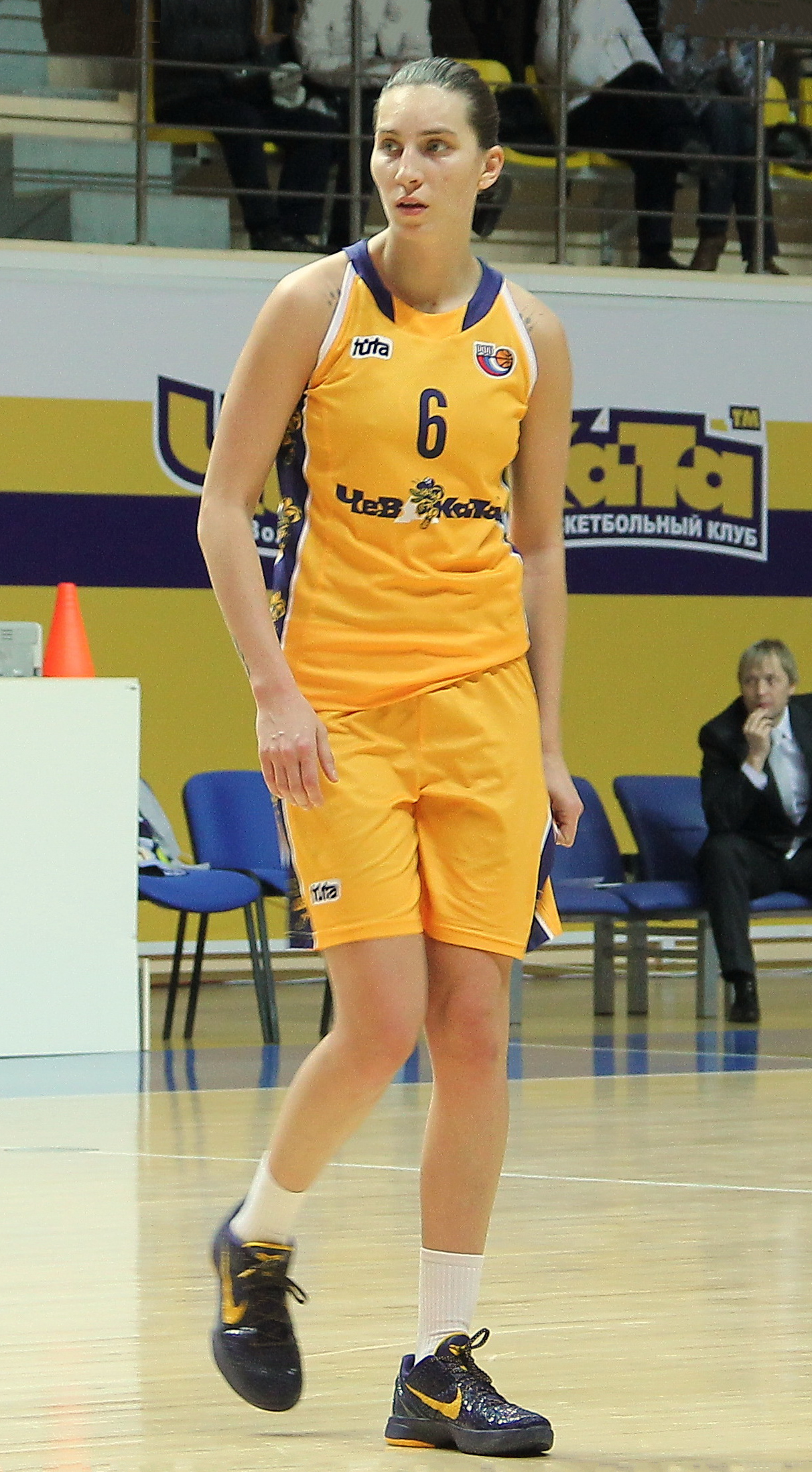 Russia, Vologda, Katsiaryna Snytsina in game «Vologda-Chevakata» vs «Nadezhda» (Orenburg)